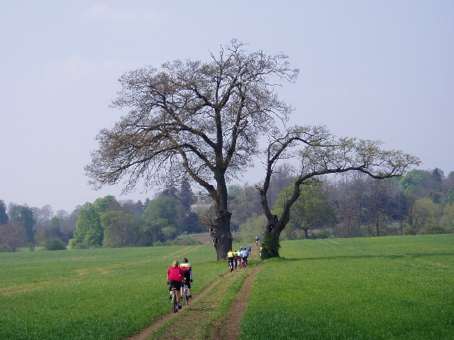 The track to Ettington Park